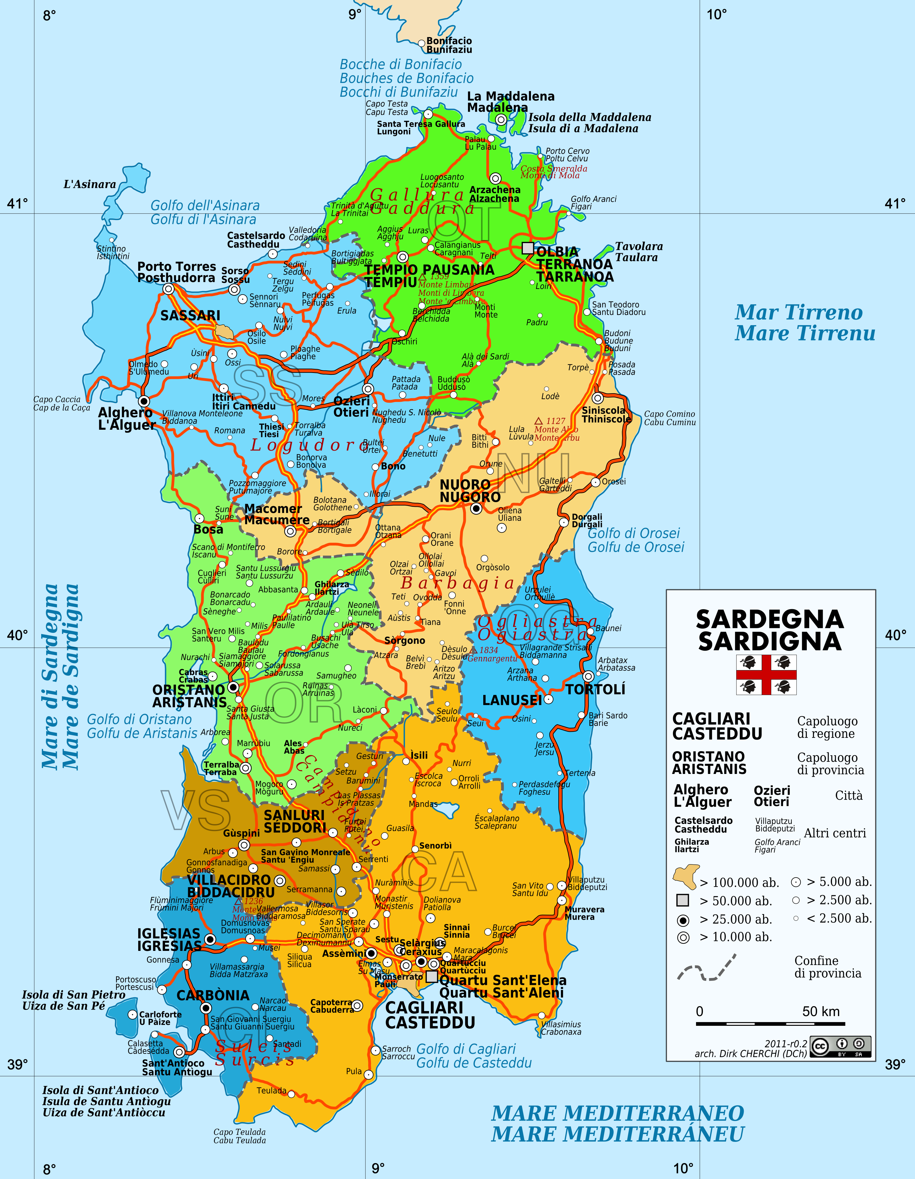 Administrative and road road map of Sardinia (bilingual)